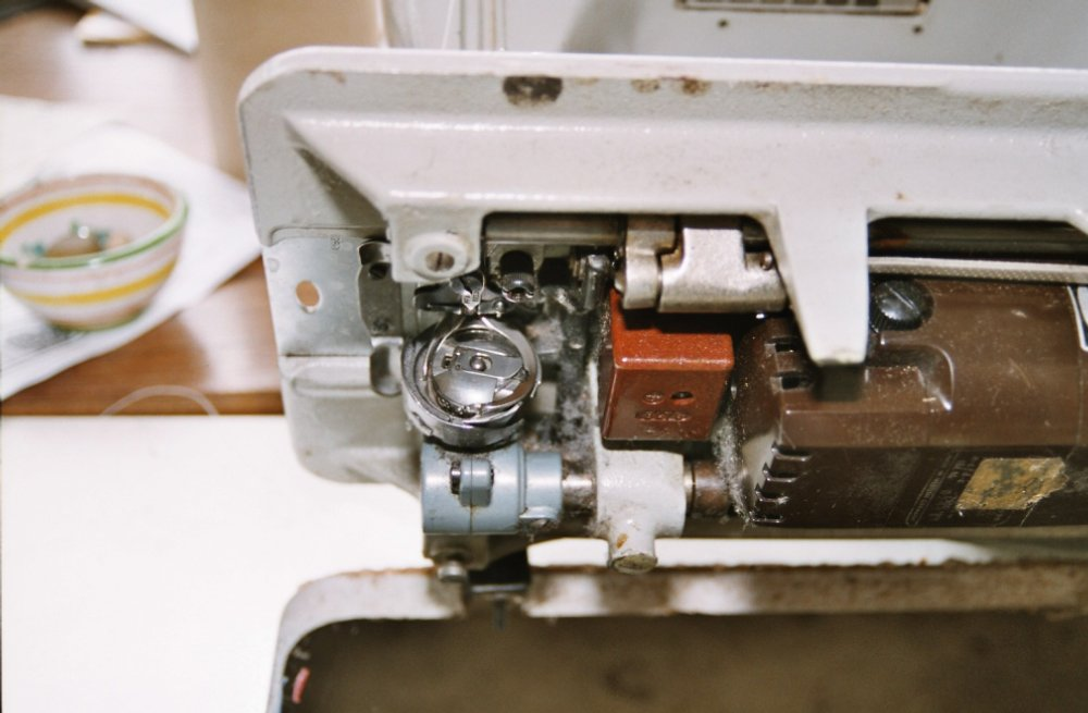 Picker of a sewing machine